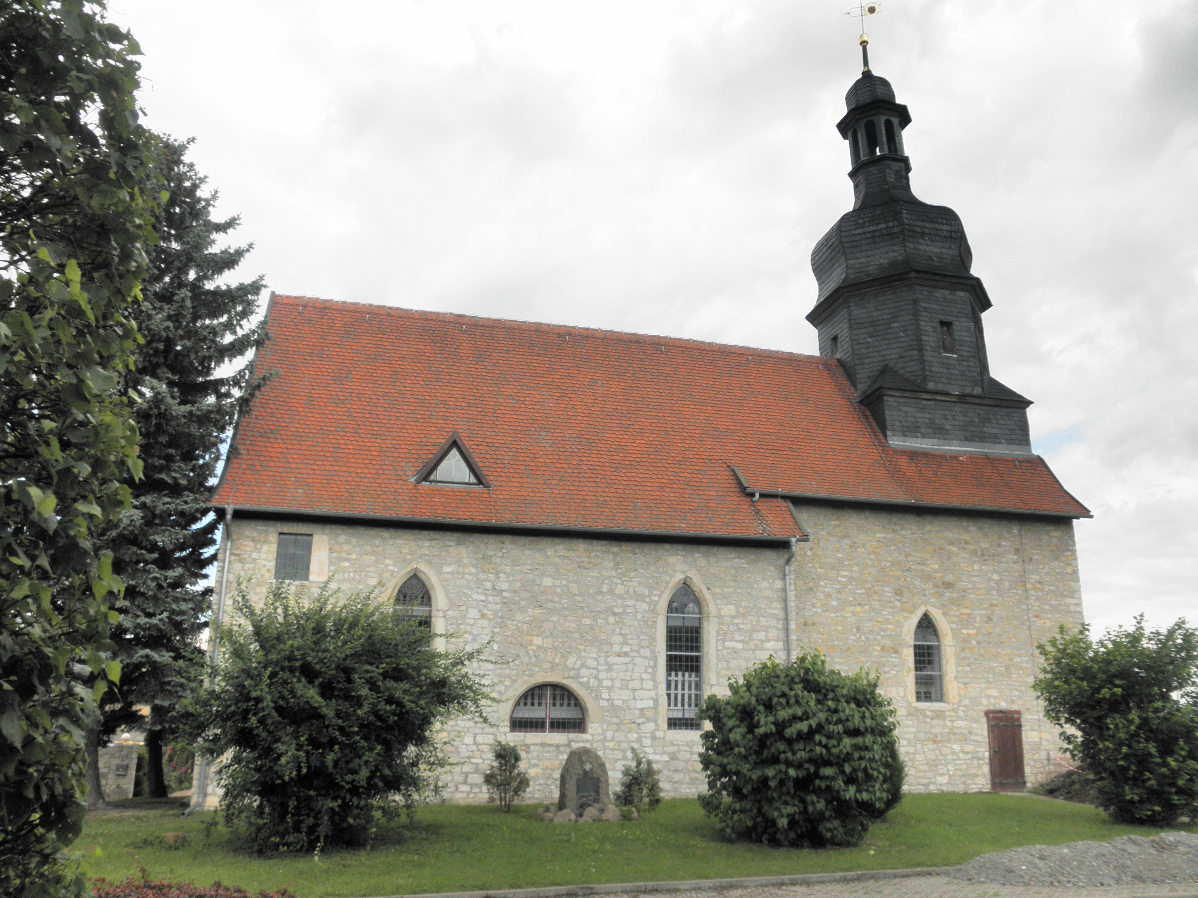 Church in Hermstedt (Saaleplatte) in Thuringia